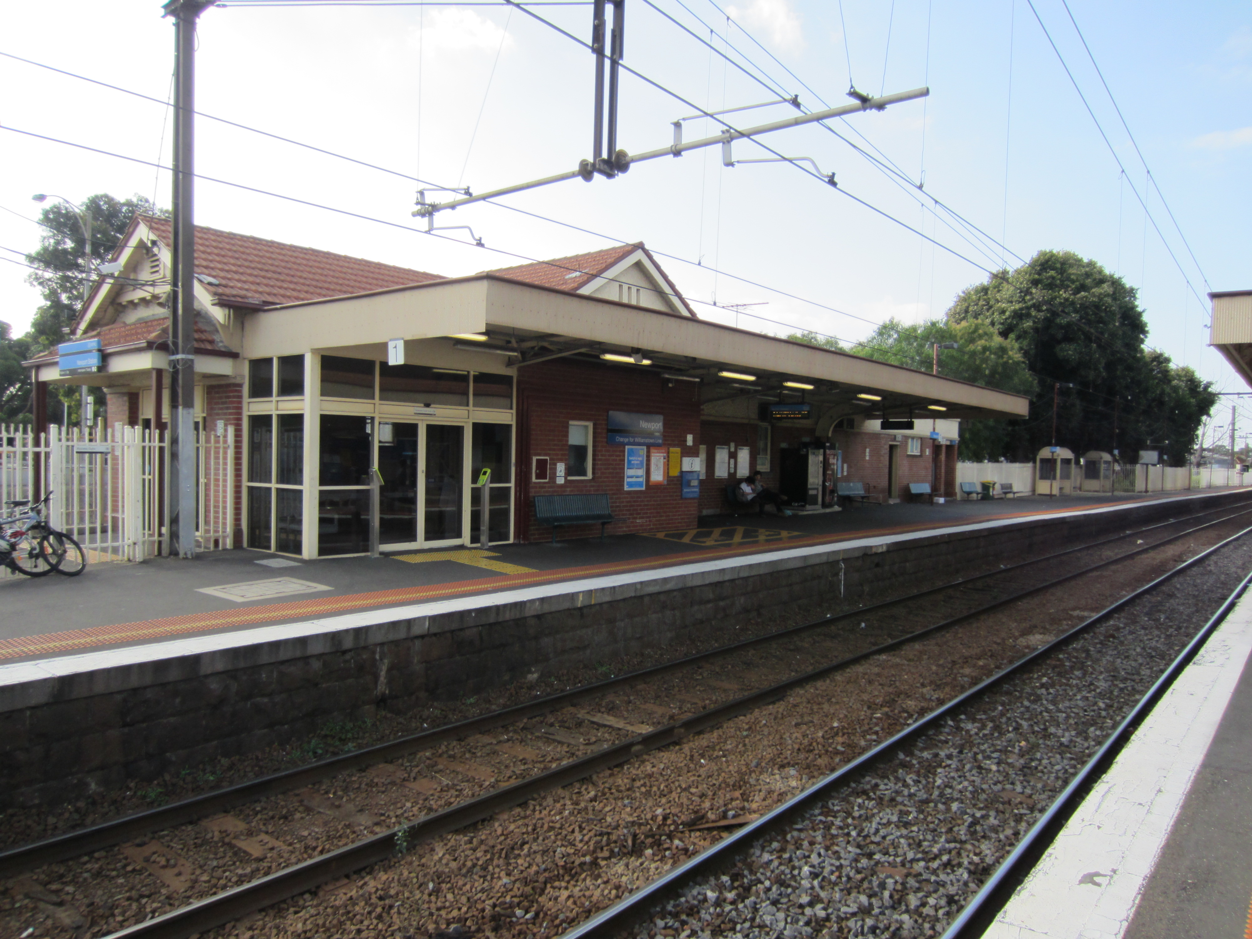 Newport Railway Station, Newport, Victoria